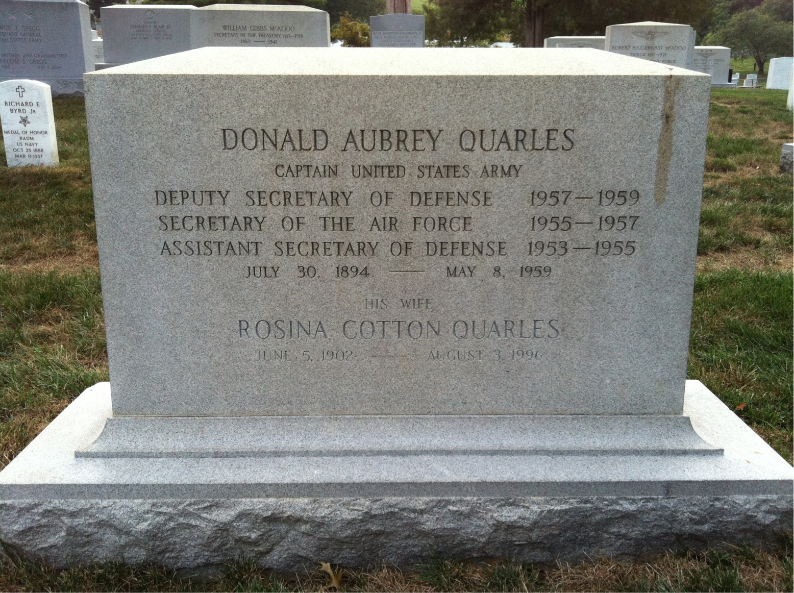 Grave of Donald Aubrey Quarles at Arlington National Cemetery